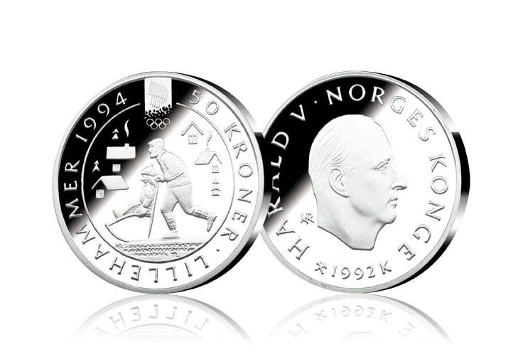 Commemorative coin commemorating the 1994 Winter Olympics in Lillehammer, Norway